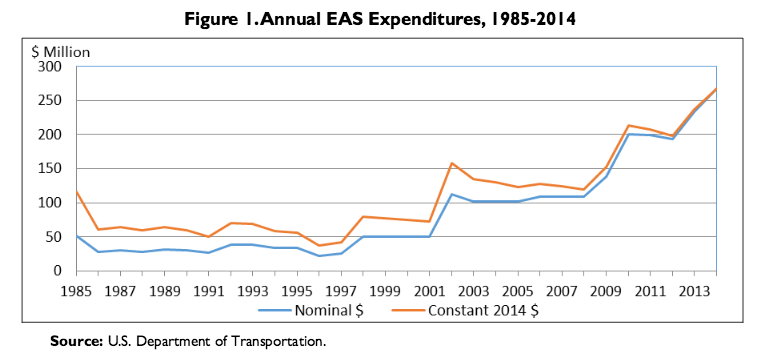 Federal subsidies for Essential Air Services in the United States